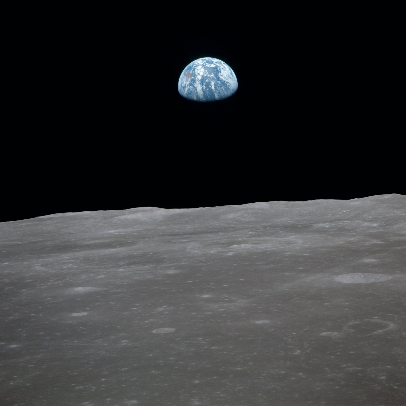 Description: View of Moon limb with Earth on the horizon,Mare Smythii Region. Earth rise. This image was taken before separation of the LM and the Command Module during Apollo 11 Mission. Original film magazine was labeled V. Film Type: S0-368 Color taken with a 250mm lens. Approximate photo scale 1:1,300,000. Principal Point Latitude was 3 North by Longitude 85 East. Foward overlap is 90%. Sun angle is High. Approximate Tilt is 75 degrees. Tilt direction is West (W). Identifier: AS11-44-6562